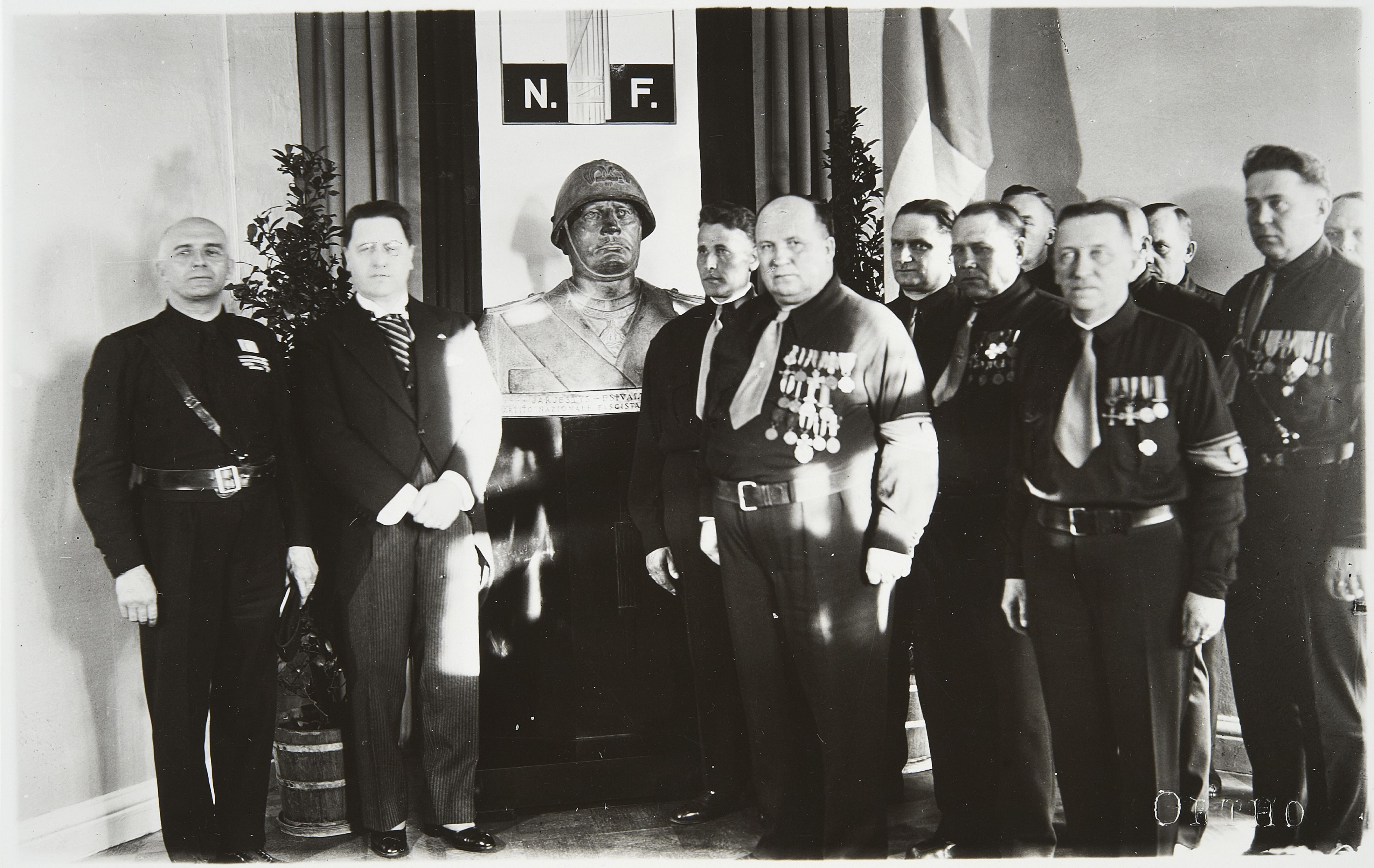 Italian delegation presents the bust of Mussolini while meeting the leadership of a Finnish fascist movement, the Patriotic People's Movement, 1933. From the left: Italian special envoy Gray Italian ambassador in Finland Tamaro IKL MP & future leader Vilho Annala IKL leader Vihtori Kosola (the fat man) IKL MP Bruno Salmiala IKL member Juhana Malkamäki IKL MP Eino Tuomivaara